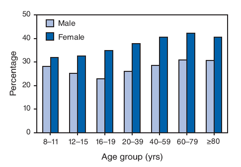 QuickStats: Mean Percentage Body Fat, by Age Group and Sex --- National Health and Nutrition Examination Survey, United States, 1999--2004